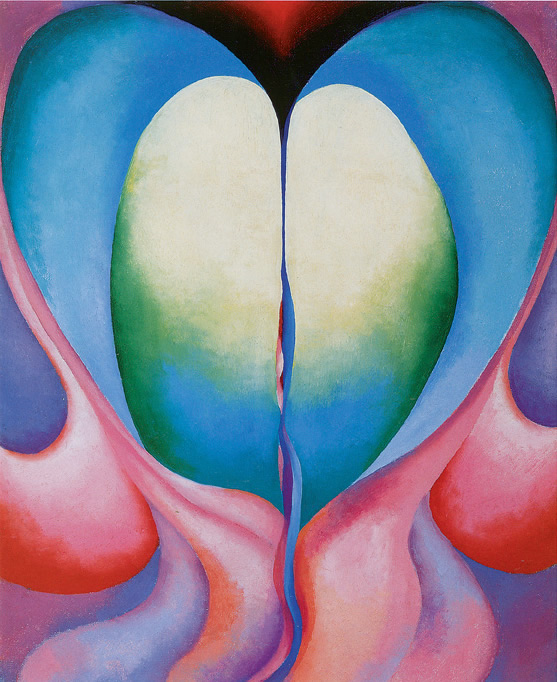 Georgia O'Keeffe's Series 1, No. 8, 1919. Oil on canvas, 20 × 16 in. (50.8 × 40.6 cm). Städtische Galerie im Lenbachhaus, Munich